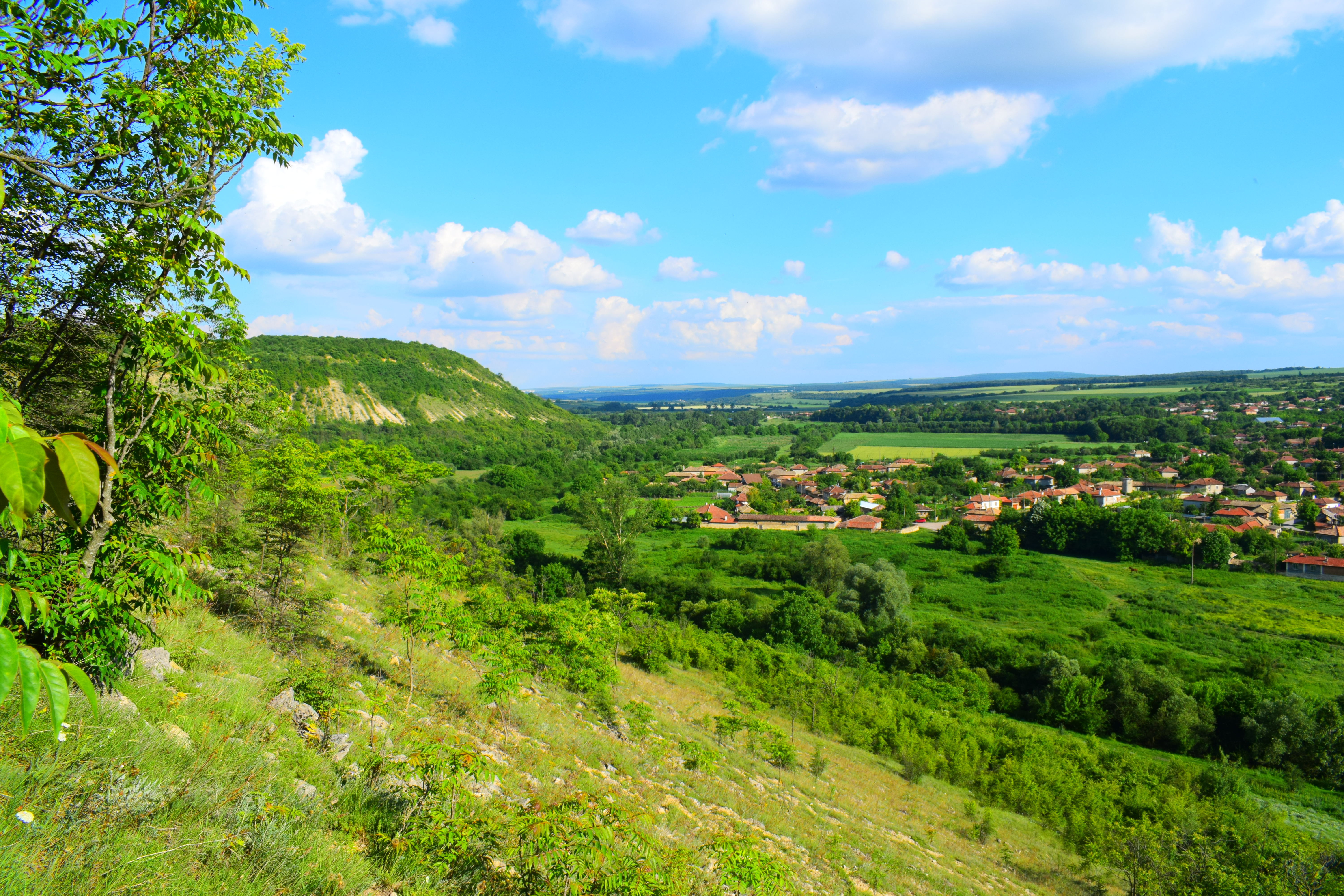 Beli Lom nature reserve